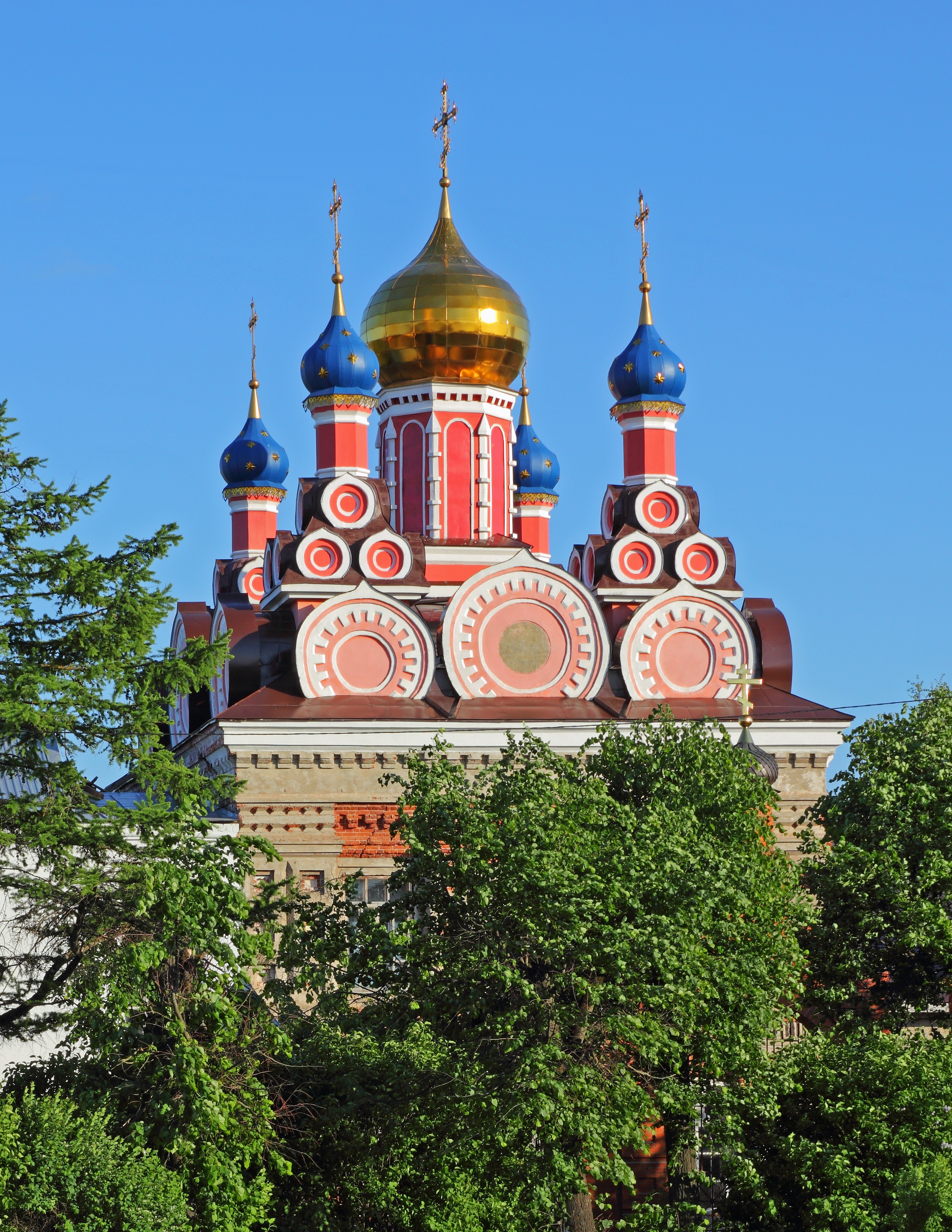 Taldom, Moscow Oblast, Russia. Church of Archangel Michael.